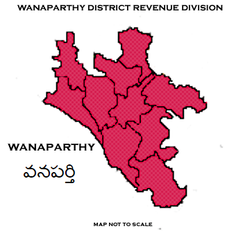 Wanaparthy District Revenue division